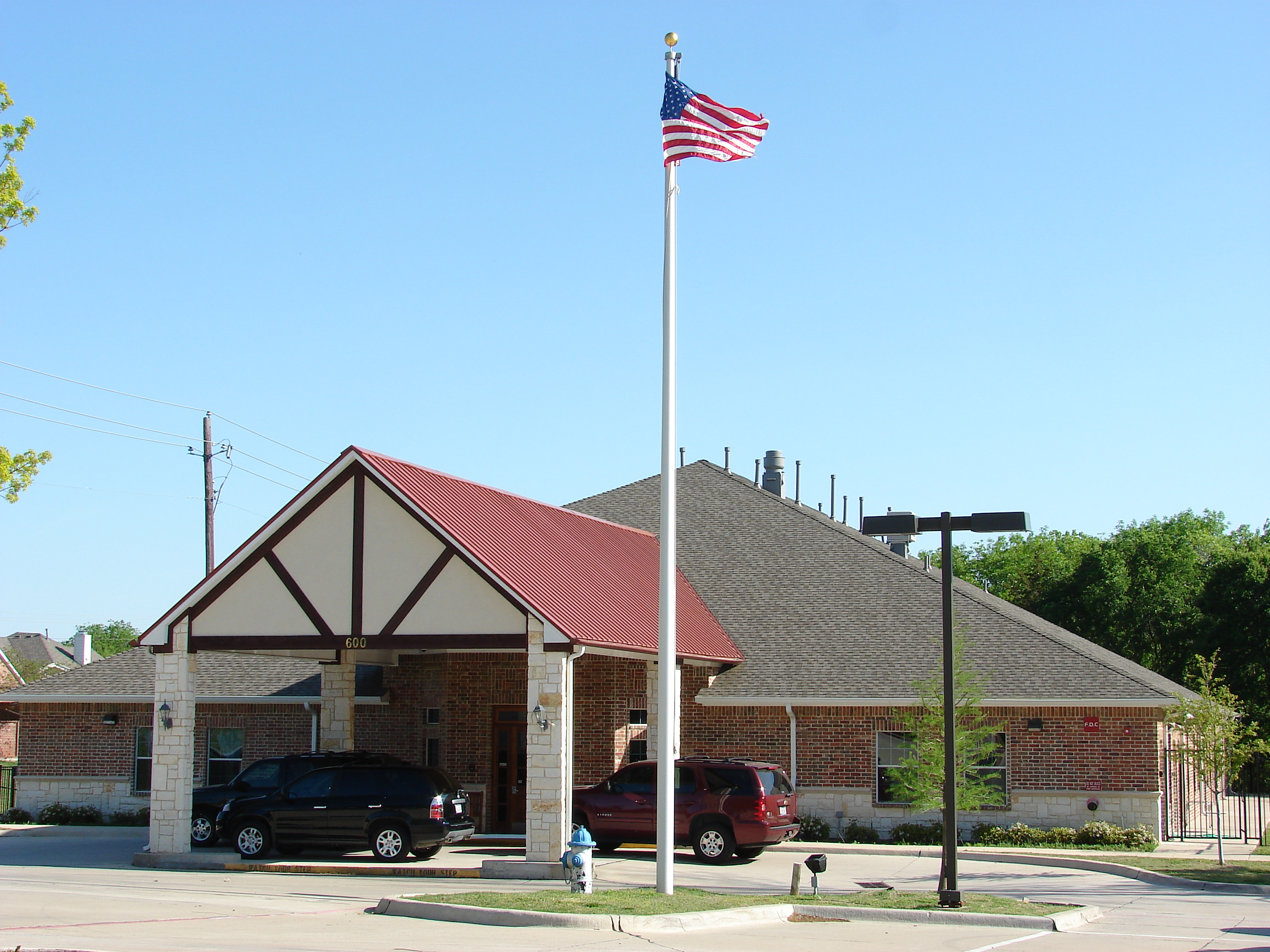 Pebblecreek Montessori preschool in Allen, Texas.